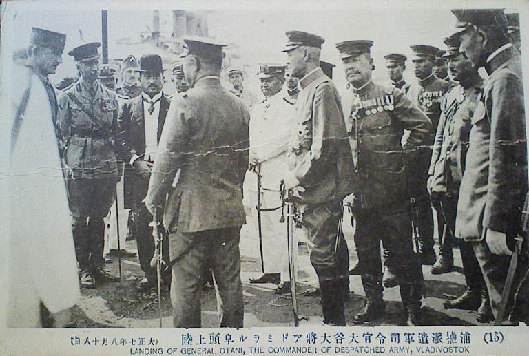 Siberian Intervention: Arrival of General Ōtani Kikuzo, Commander of the japanese Troops in Siberia, in Vladivostok.